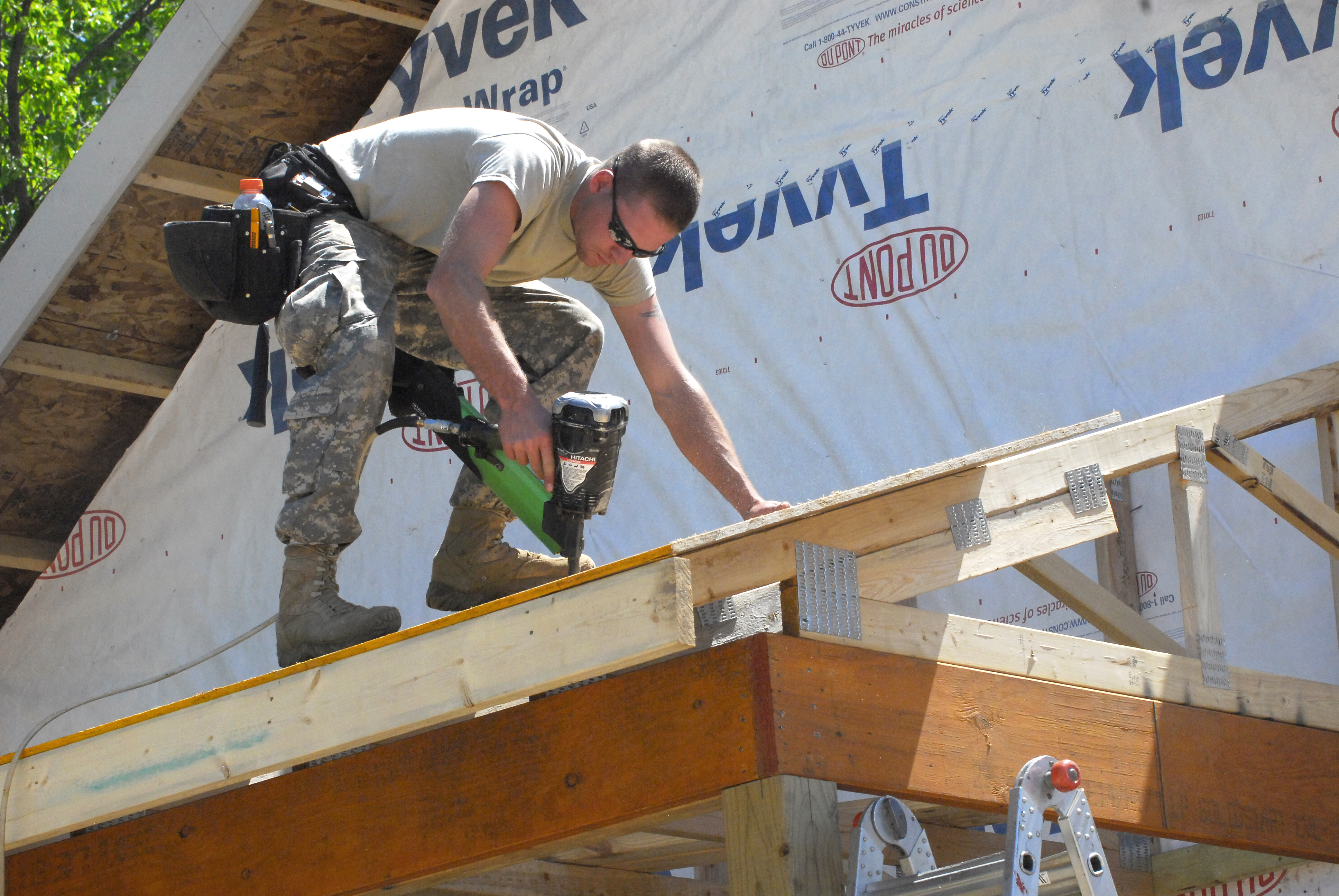 A U.S. Army soldier uses a nail gun to secure the roofing board over a porch during this year's annual training building three cabins at the Disabled Veterans Rest Camp in Marine St. Croix, Minn., May 19, 2010. U.S. Army photo by Sgt. 1st Class Daniel Ewer